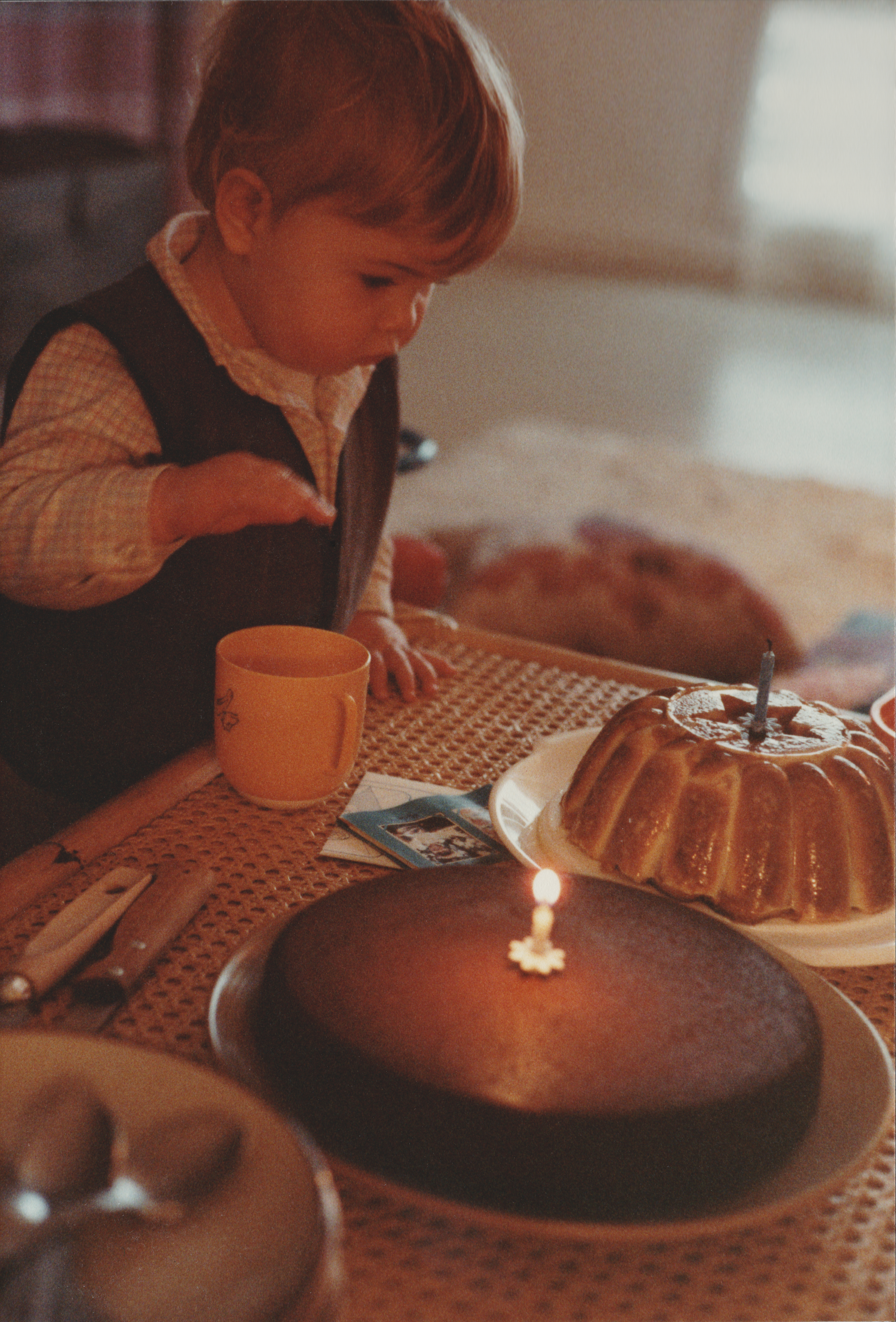 A young child preparing to extinguish the candle of his first birthday